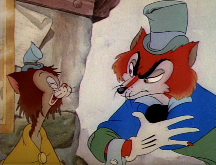 Screenshot of the trailer for Walt Disney's Pinocchio showing Foulfellow and Gideon